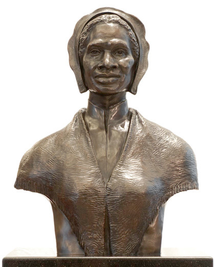 Sculpture by Artis Lane Bronze 2009 Emancipation Hall, Capitol Visitor Center For more information visit: This official Architect of the Capitol photograph is being made available for educational, scholarly, news or personal purposes (not advertising or any other commercial use). When any of these images is used the photographic credit line should read “Architect of the Capitol.” These images may not be used in any way that would imply endorsement by the Architect of the Capitol or the United States Congress of a product, service or point of view. For more information visit